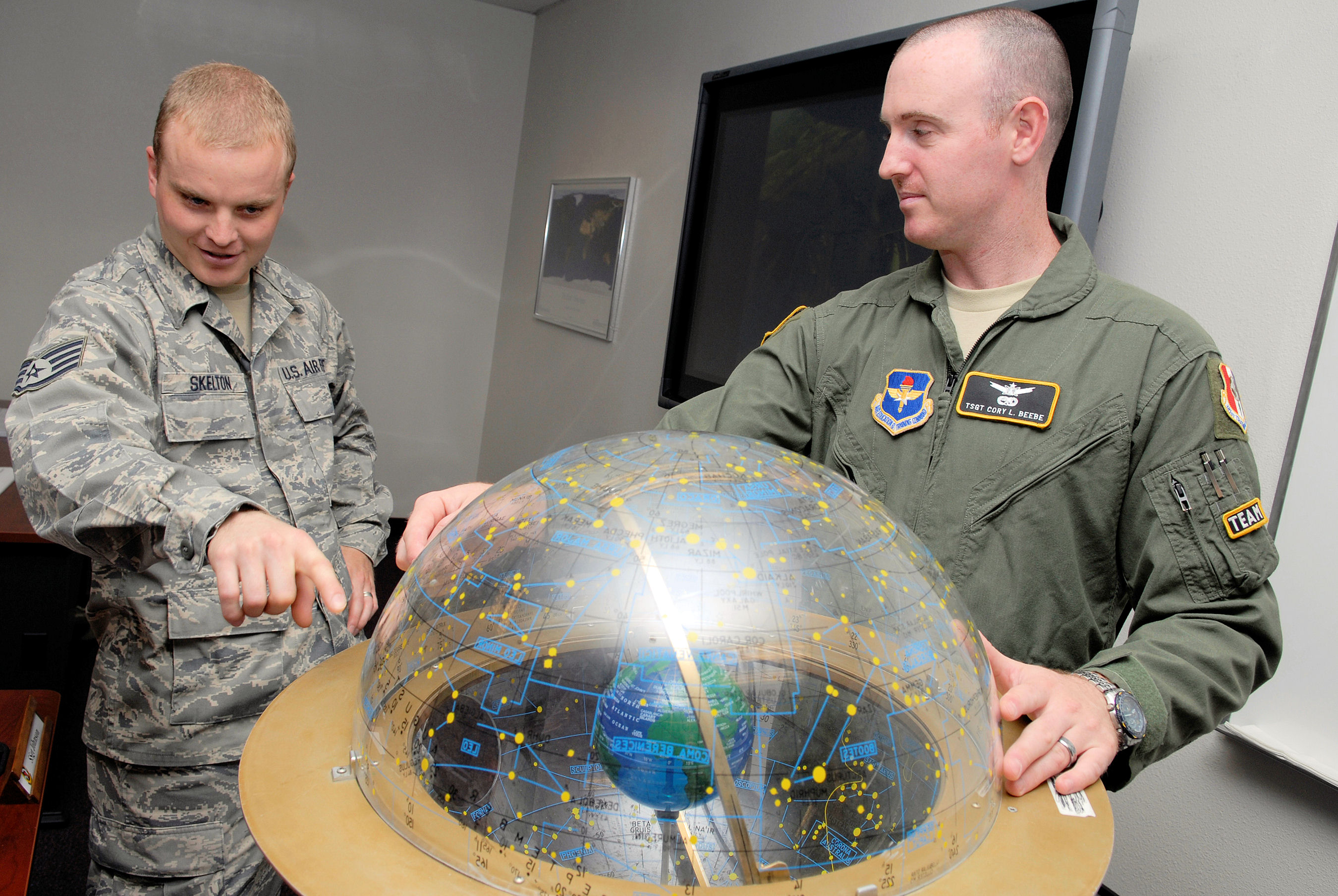 VANDENBERG AIR FORCE BASE, Calif. -- Using a celestial sphere, Staff Sgt. Dallin Skelton, left, a 533rd Training Squadron student, shows Tech. Sgt. Cory Beebe, a 533rd TRS enlisted Space 100 instructor, a point used to see the apparent path the sun takes through the stars. The 533rd TRS, an original missile squadron and a training detachment at Schriever AFB, Colo., provides initial qualification training for attack warning, space surveillance and counter-drug missions. (U.S. Air Force photo/Senior Airman Christian Thomas)